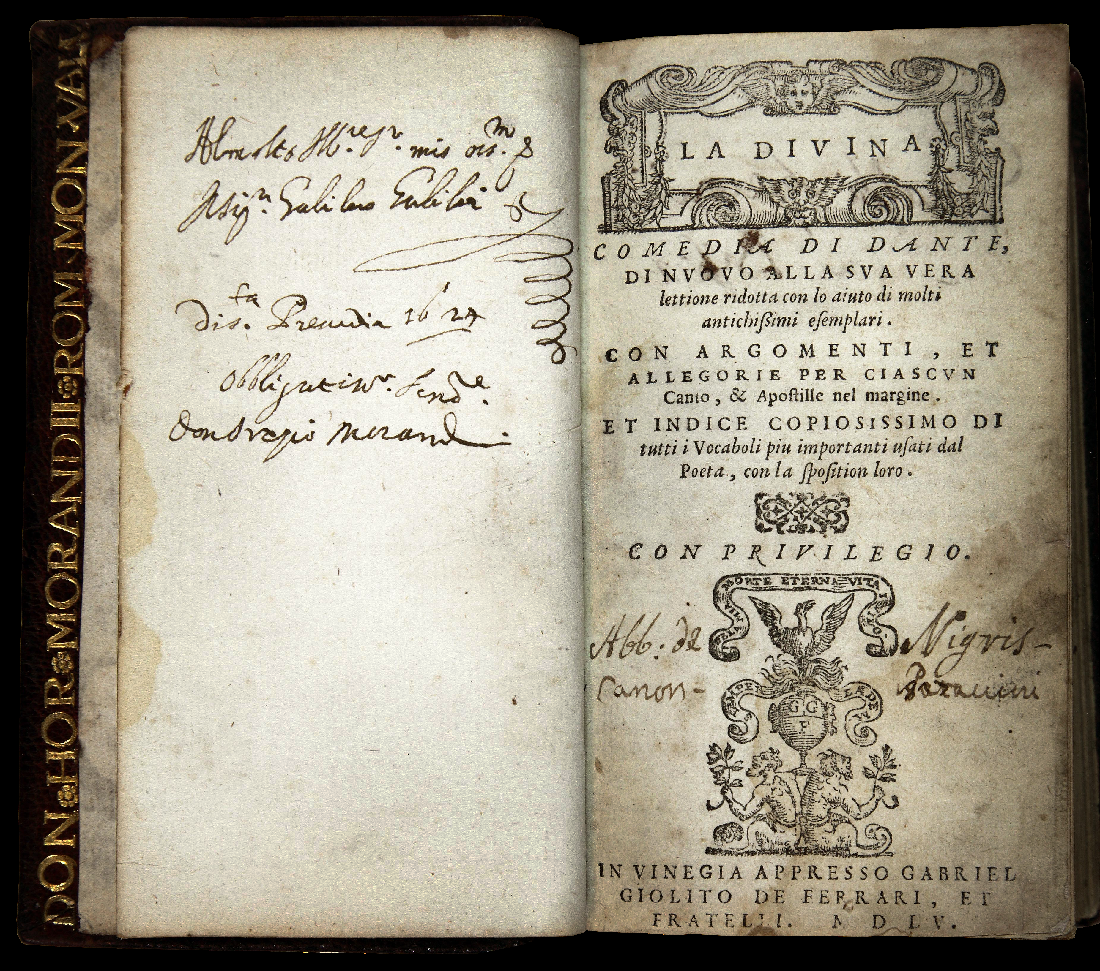 Galileo Galilei's copy of the first Giolito edition of Divine Comedy (1555)